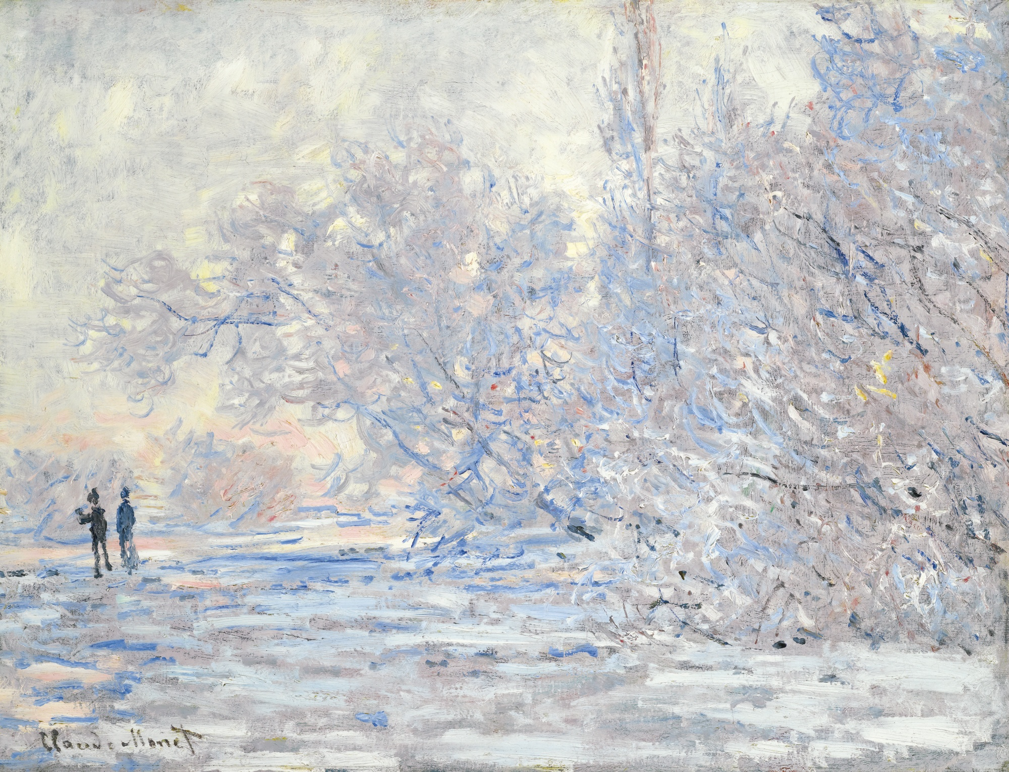 CLAUDE MONET (1840 - 1926), LE GIVRE À GIVERNY, signed Claude Monet (lower left), oil on canvas, 54 by 71 cm. Painted in 1885.